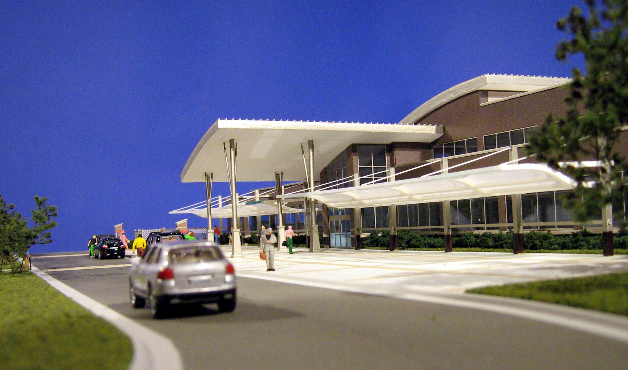 A picture of an architectural model of the new Pierre, South Dakota airport that is being constructed in 2011-2012. The model was made by Archetype 3D, a company based in Louisville, Colorado, United States.